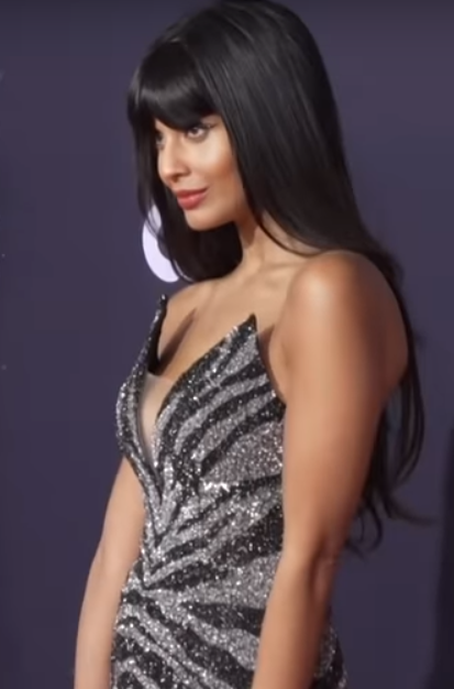 Jameela Jamil at The 2019 American Music Awards red carpet